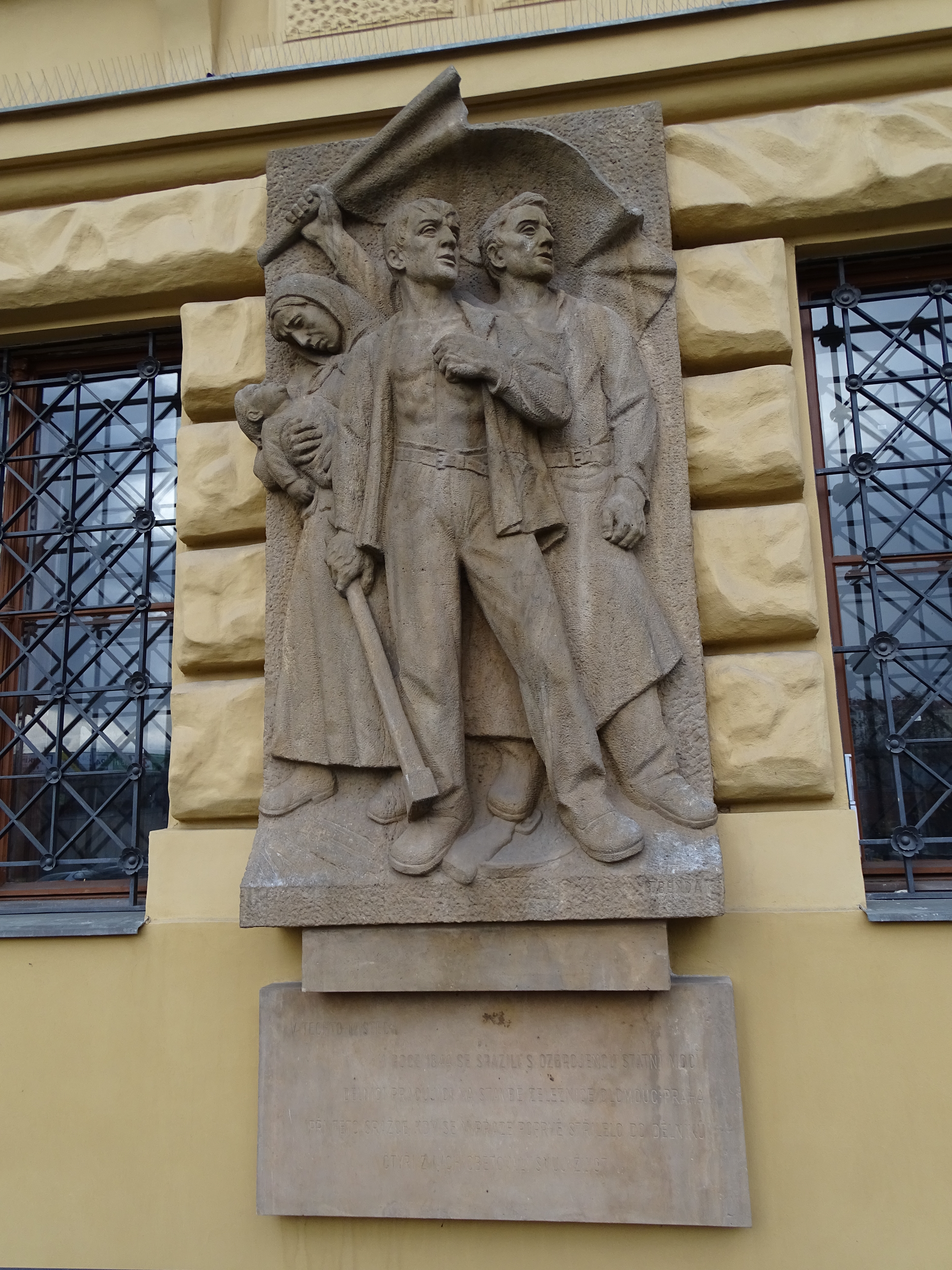 Prague-New Town, Czech Republic. Křižíkova street, a plaque on the Museum of the City of Prague.